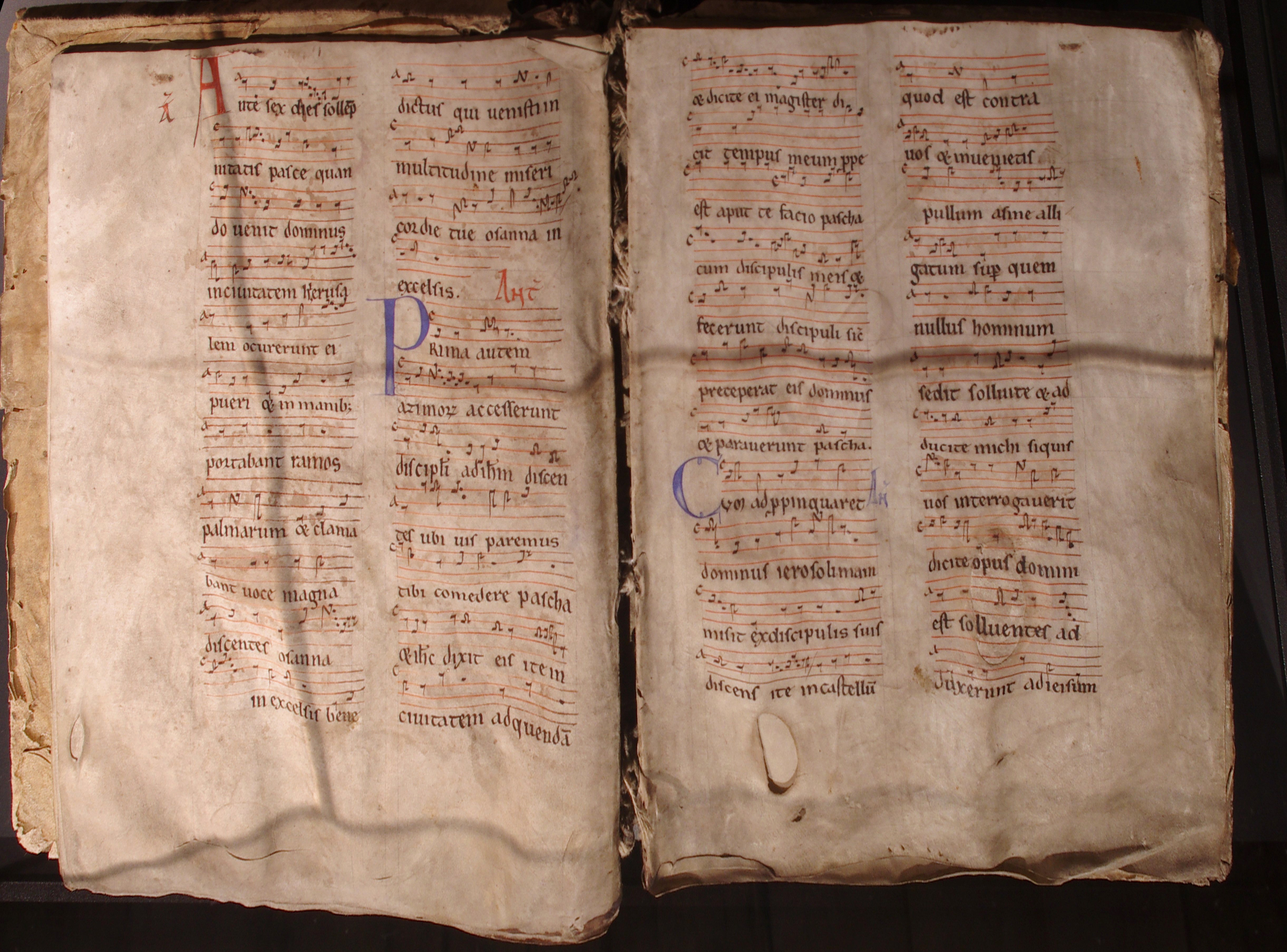 Skaramissalet (i.e. "The Skara Missal") is a mediaeval liturgical book from Skara Cathedral. It is probably the oldest book in Sweden, and it is dated to around 1150.